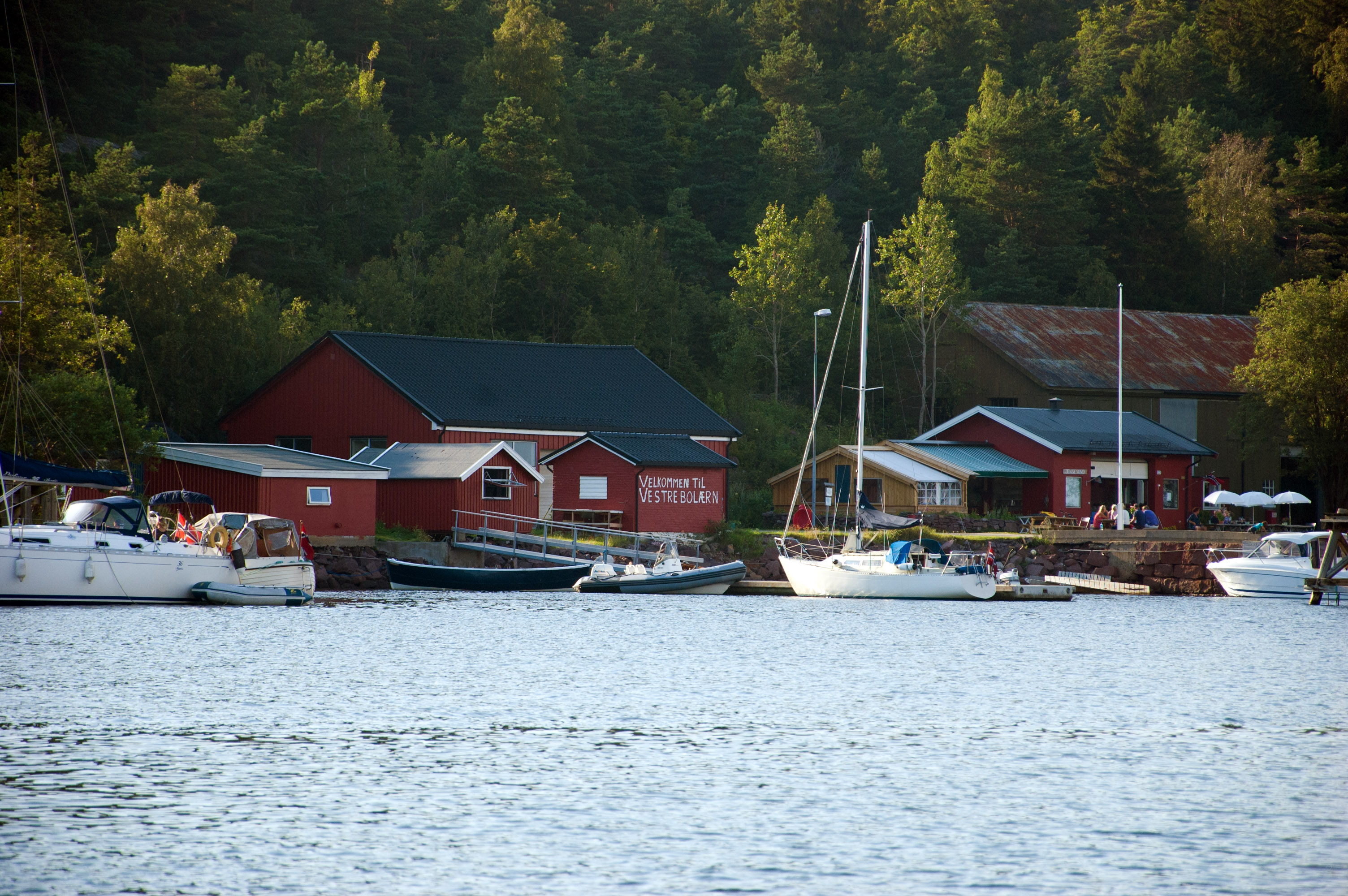 Jensesund, Vestre Bolæren, the westernmost of the three Bolærne islands in Nøtterøy, Vestfold, Norway.